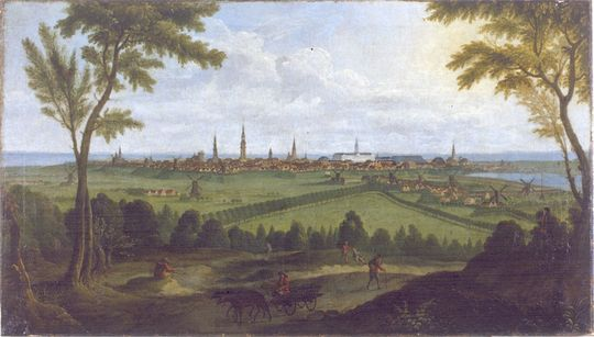 The view from Valby Bakke in 1758 over Copenhagen, Denmark. The roads Vesterbrogade then Vestre Landevej) and Gammel Kongevej can be seen diverging.